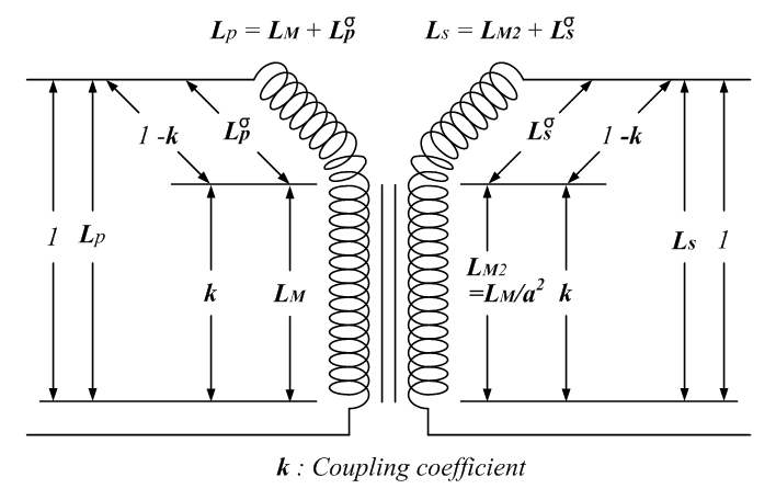 Coupling Coefficient image